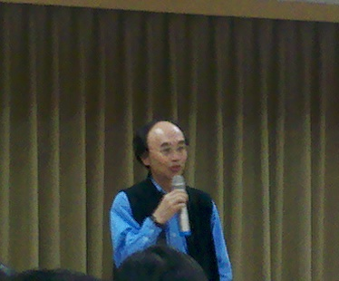 Tzay-Chyn Shin, the Director-General of Central Weather Bureau, MOTC.